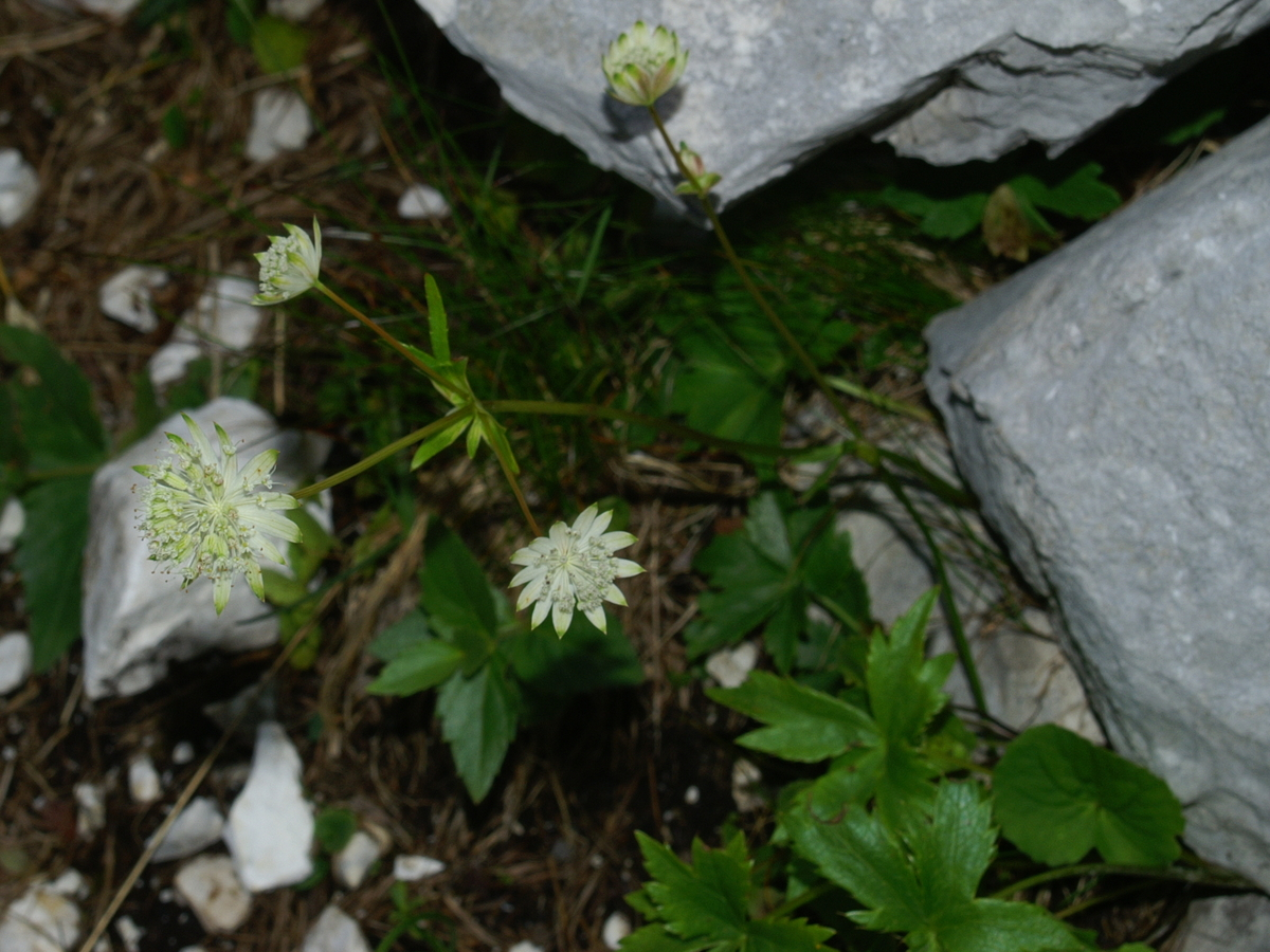 Masterwort (Astrantia bavarica) from Pod Rjavino, Slovenia